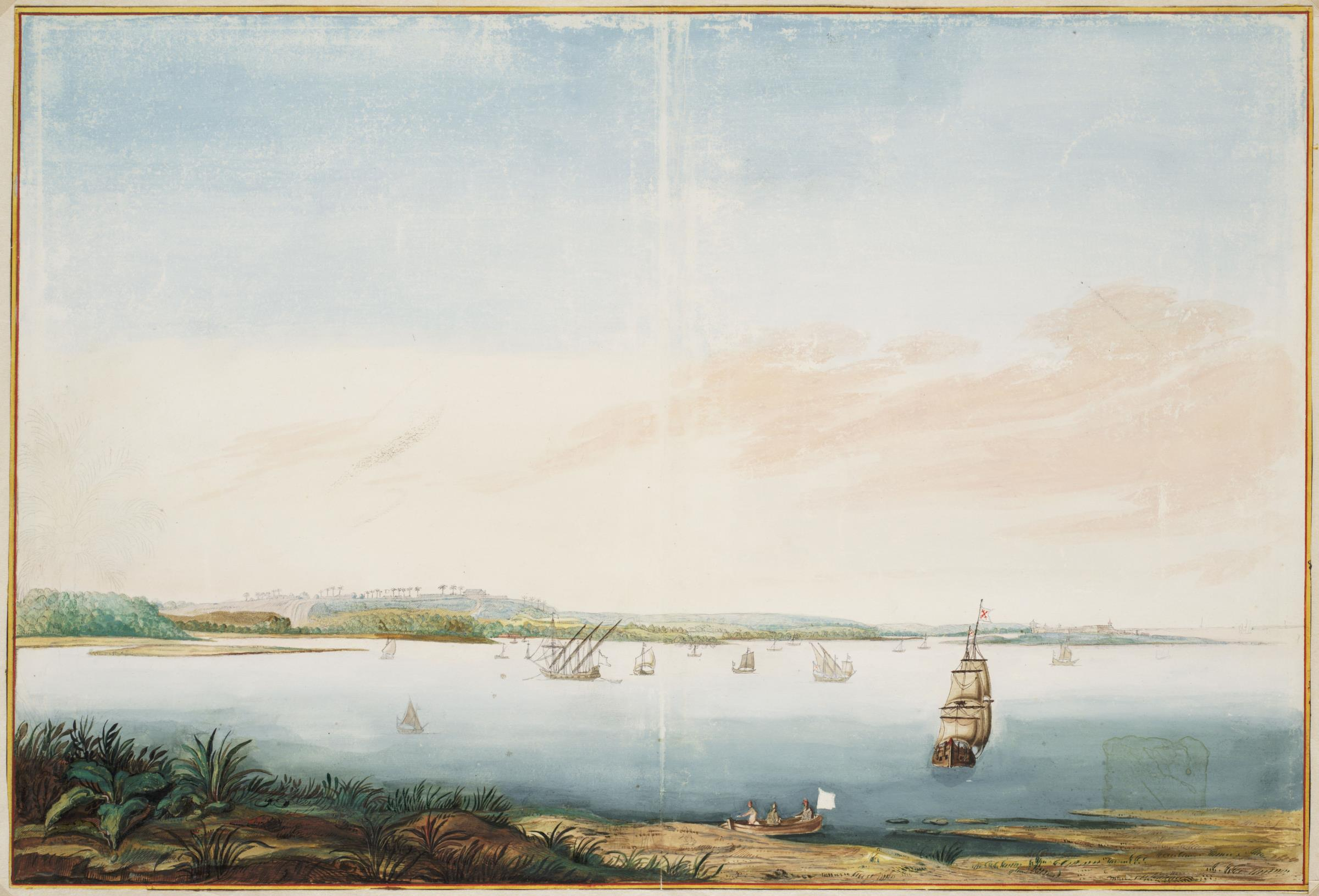 Title in the Leupe catalogue (NA): Gezicht op [...]. View of Tamaraca. Compare with Casper Barlaeus, 'Rervm per octennivm in Brasilia', Koninklijke Bibliotheek inv. nr. 1043 B14 opposite p. 53. Remarks: the plate is included in the Vingboons Atlas.